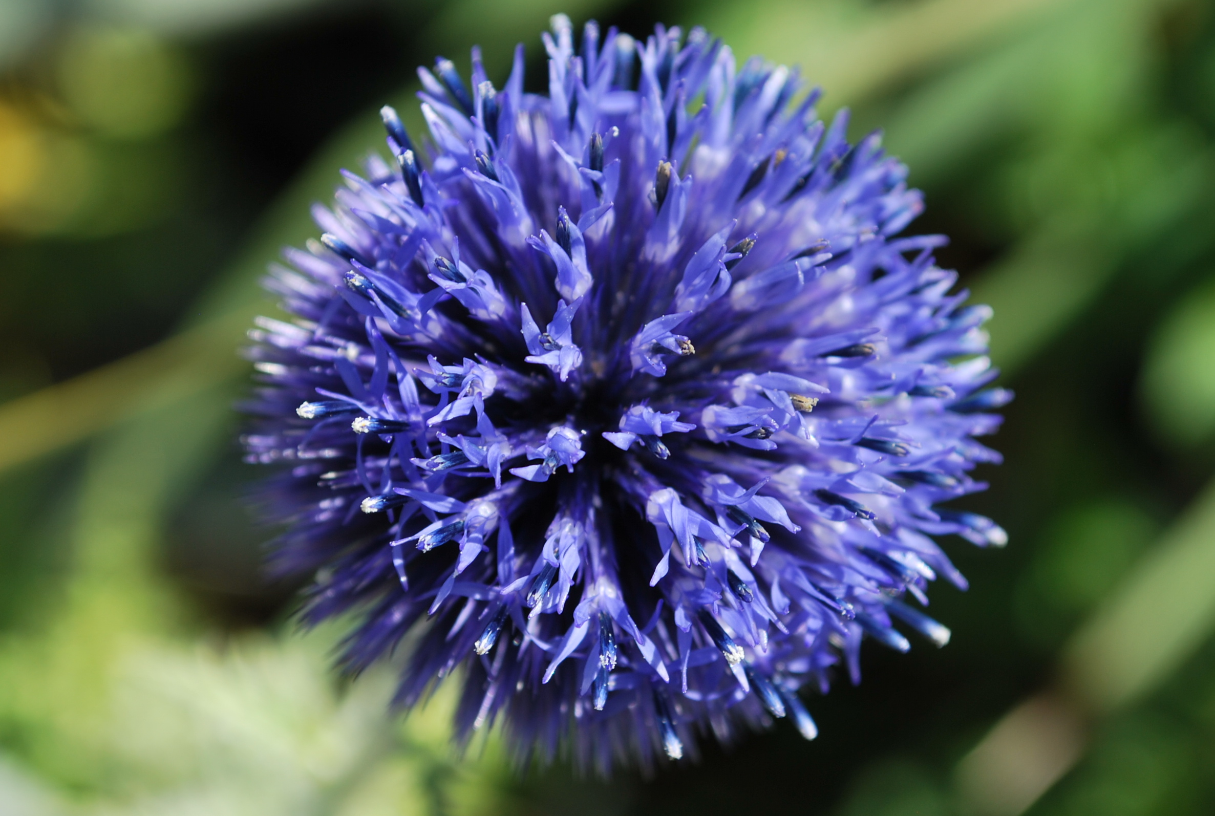 Blue pom pom puff flower.